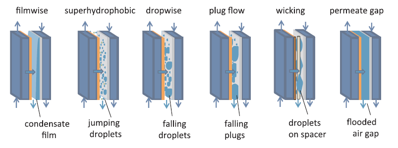 In each example, the channel on the far left is the feed (dark blue), followed by the membrane (orange), air gap with condensate (aqua), condensing plate (grey), and cooling channel for feed preheating (dark blue). (For interpretation of the references to color in this figure legend, the reader is referred to the web version of this article.)